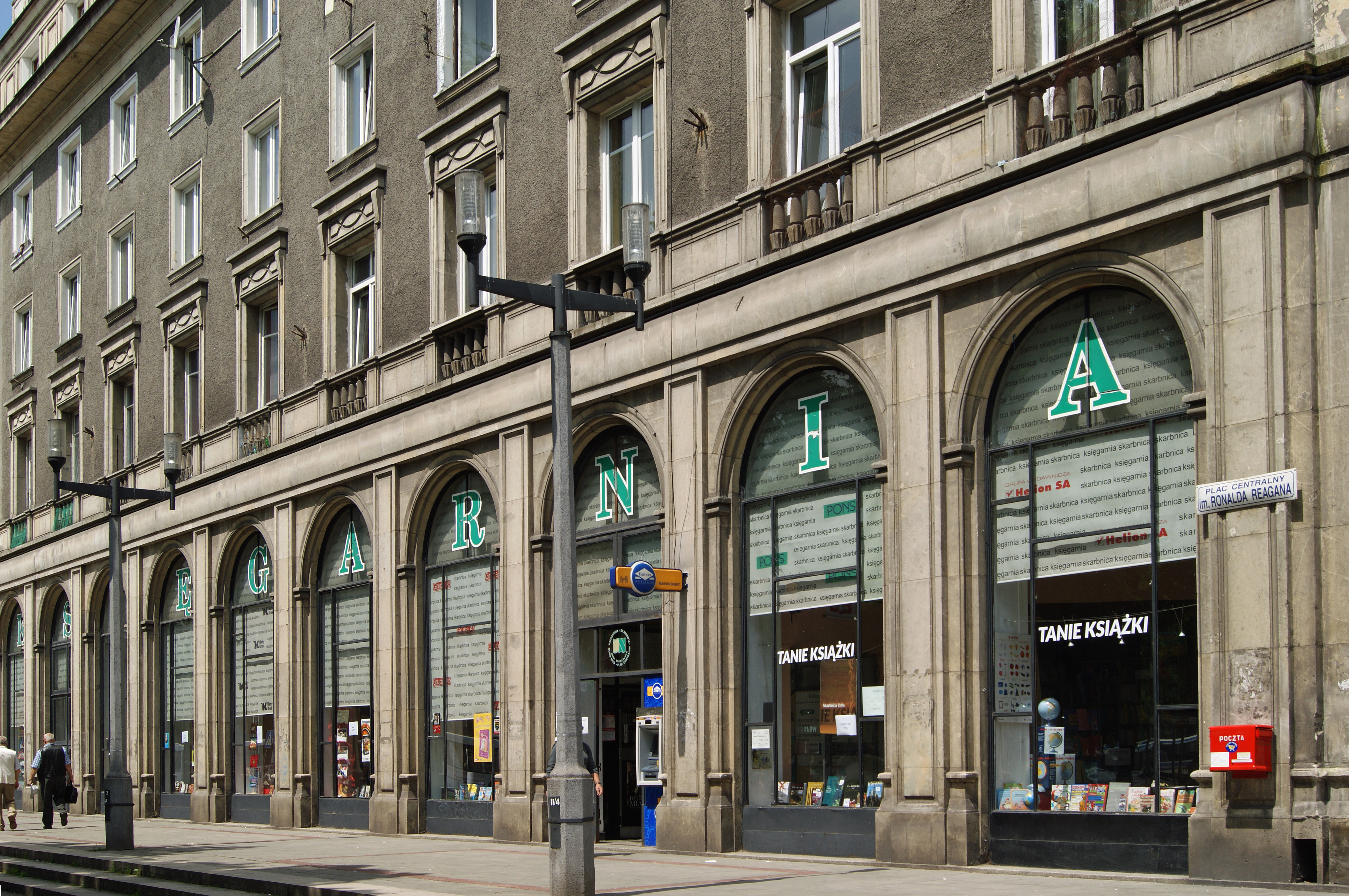 Skarbnica bookshop, 1 osiedle Centrum C, Nowa Huta, Kraków, Poland